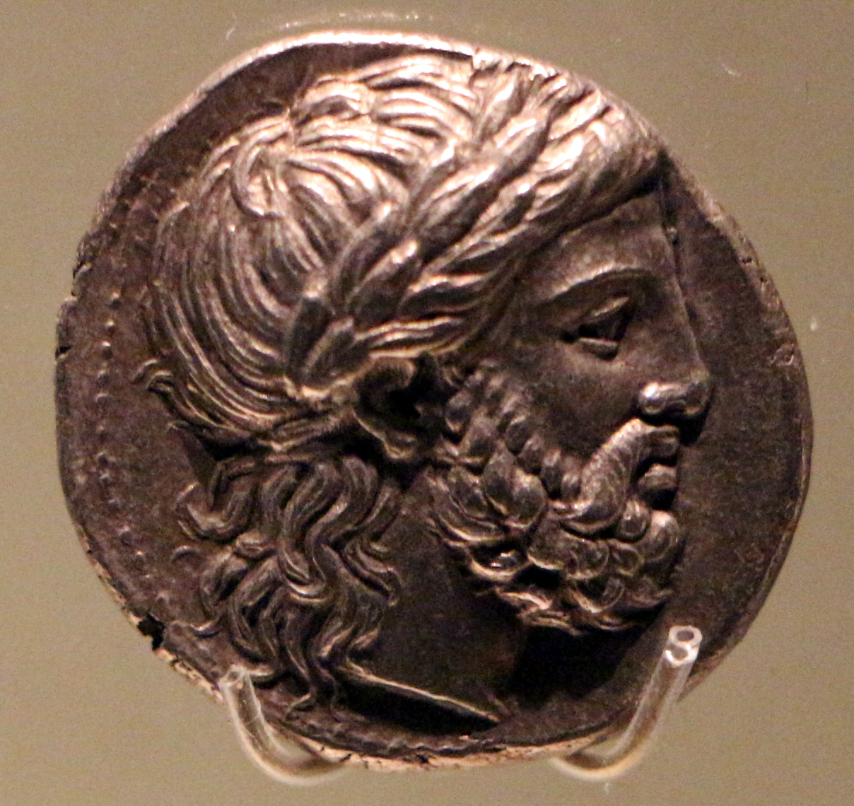 Ancient Greek coins in the Calouste Gulbenkian Museum